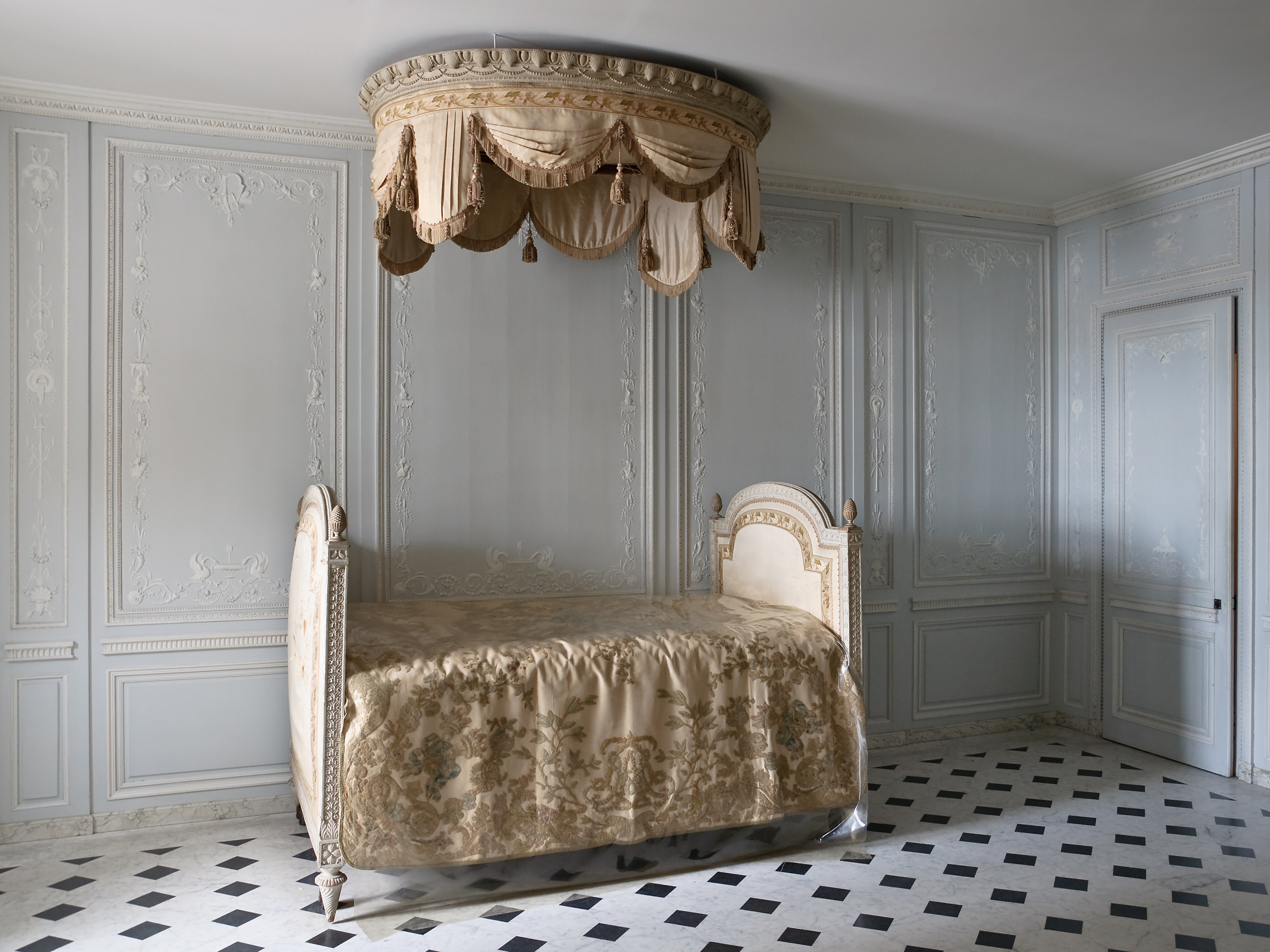 Palace of Versailles - Petit appartement de la Reine - The bathroom of Marie-Antoinette, on the ground floor.The boiseries pattern is in harmony with the purpose of the room: basins with swans, reeds, dolphins, shells, etc. This room was spacious enough to be used as a chamber where resting.Lit à la Polonaise (Polish style bed) from 1785, by Jean-Baptiste Boulard (c. 1730-1789), initially delivered for Louis XVI's bathroom in the château de Compiègne.